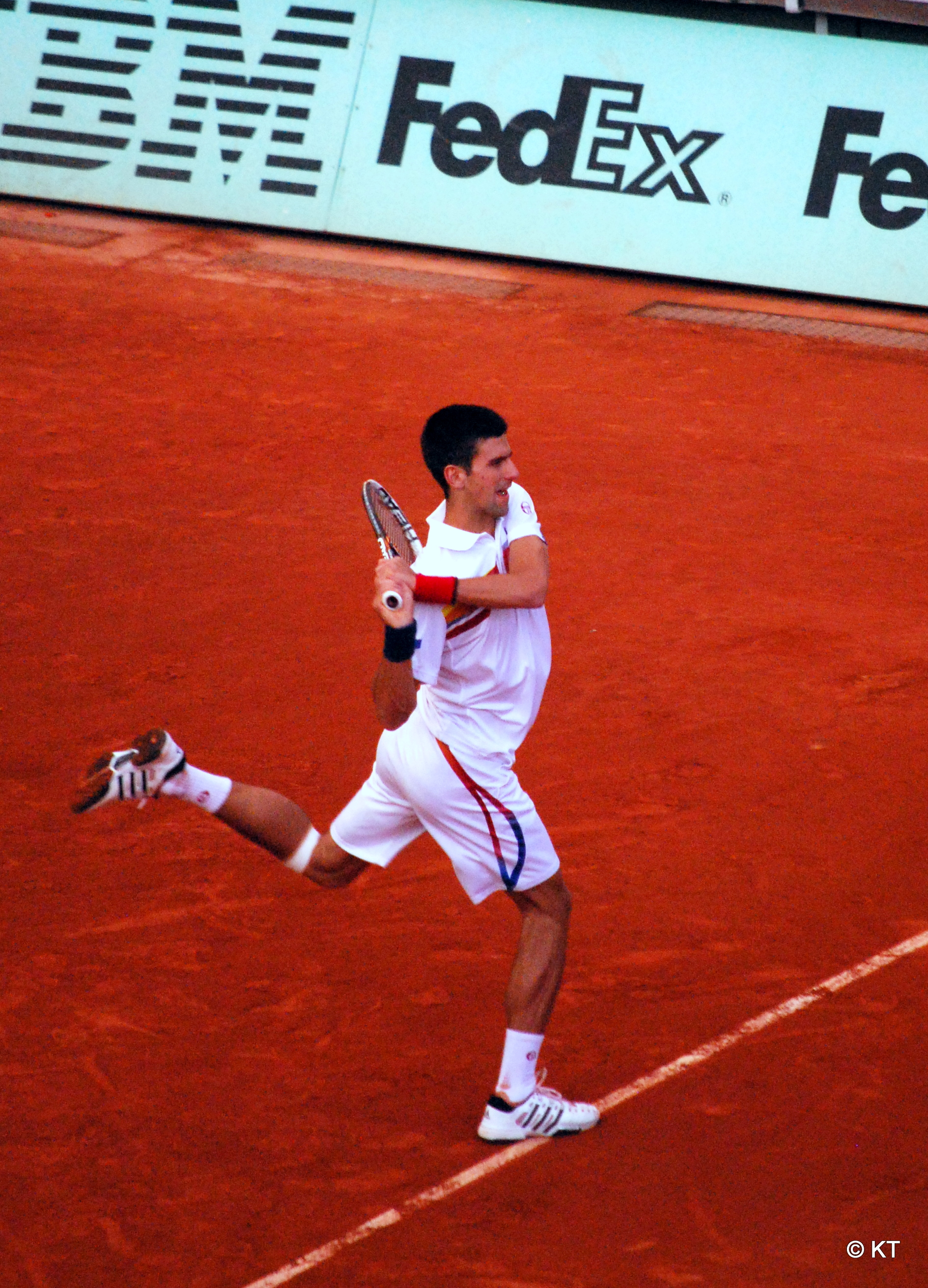 Novak Djokovic during his 3rd round match with Juan Martin Del Potro. Djokovic won 6-3, 3-6, 6-3, 6-2. Roland Garros 2011.